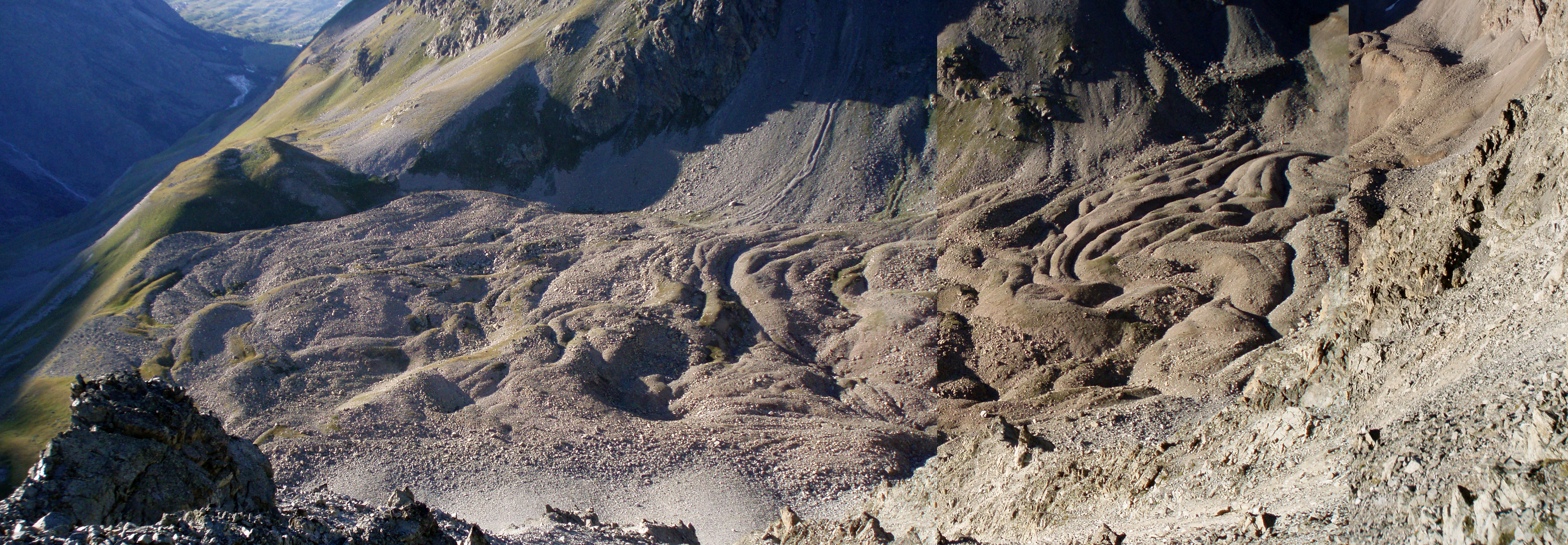 Panoramic view of the Route complexe of rock glaciers, French Alps.